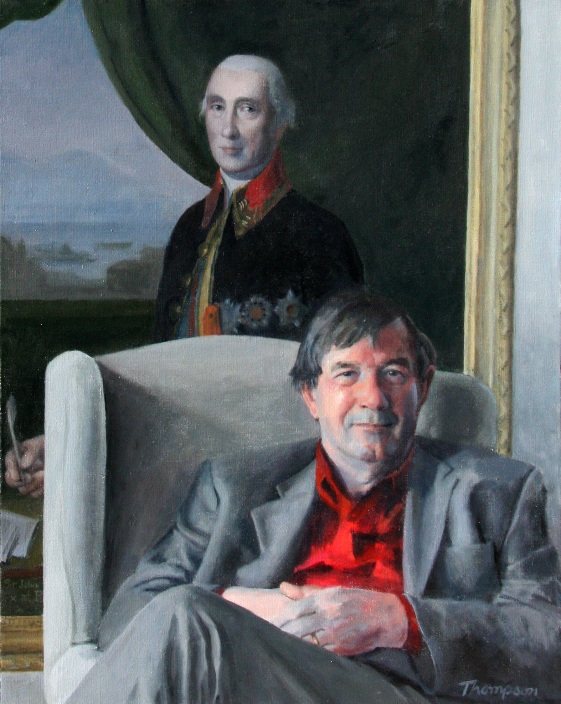 Portrait of Richard Lyon-Dalberg-Acton, 4th Baron Acton, by Peter Thompson. Included in the painting is a portrait of Sir John Acton.